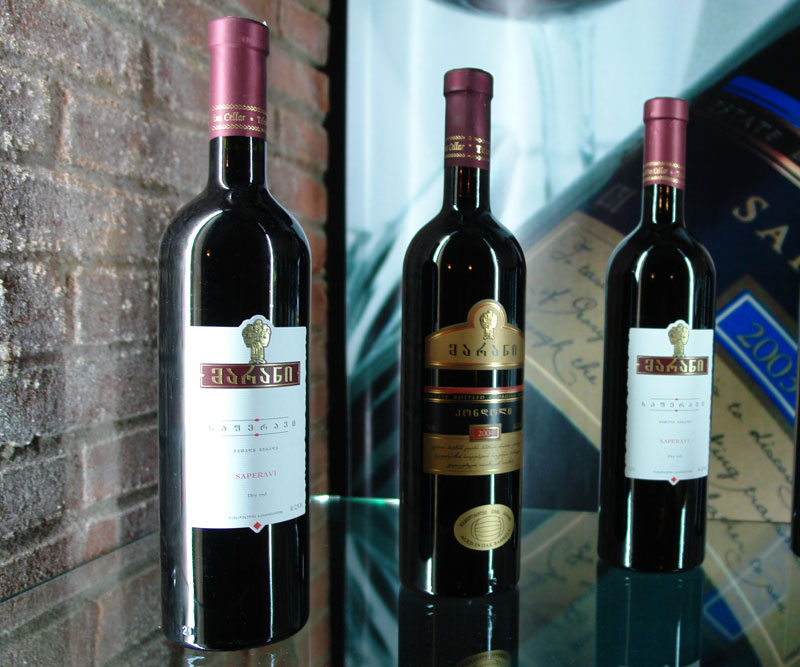 Georgian Wine